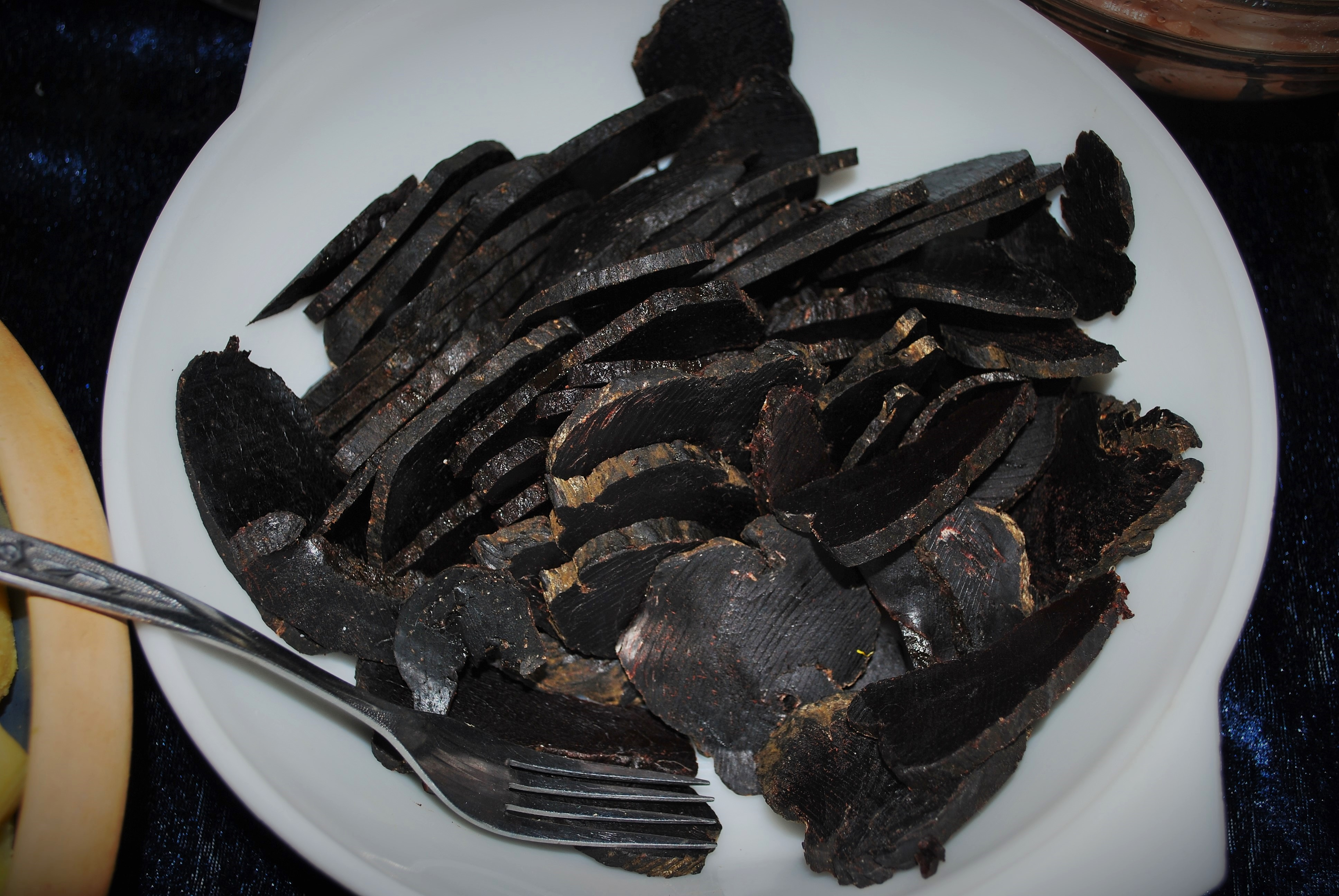 Traditional dish consisting of dried pilot whale meat. (the black meat)